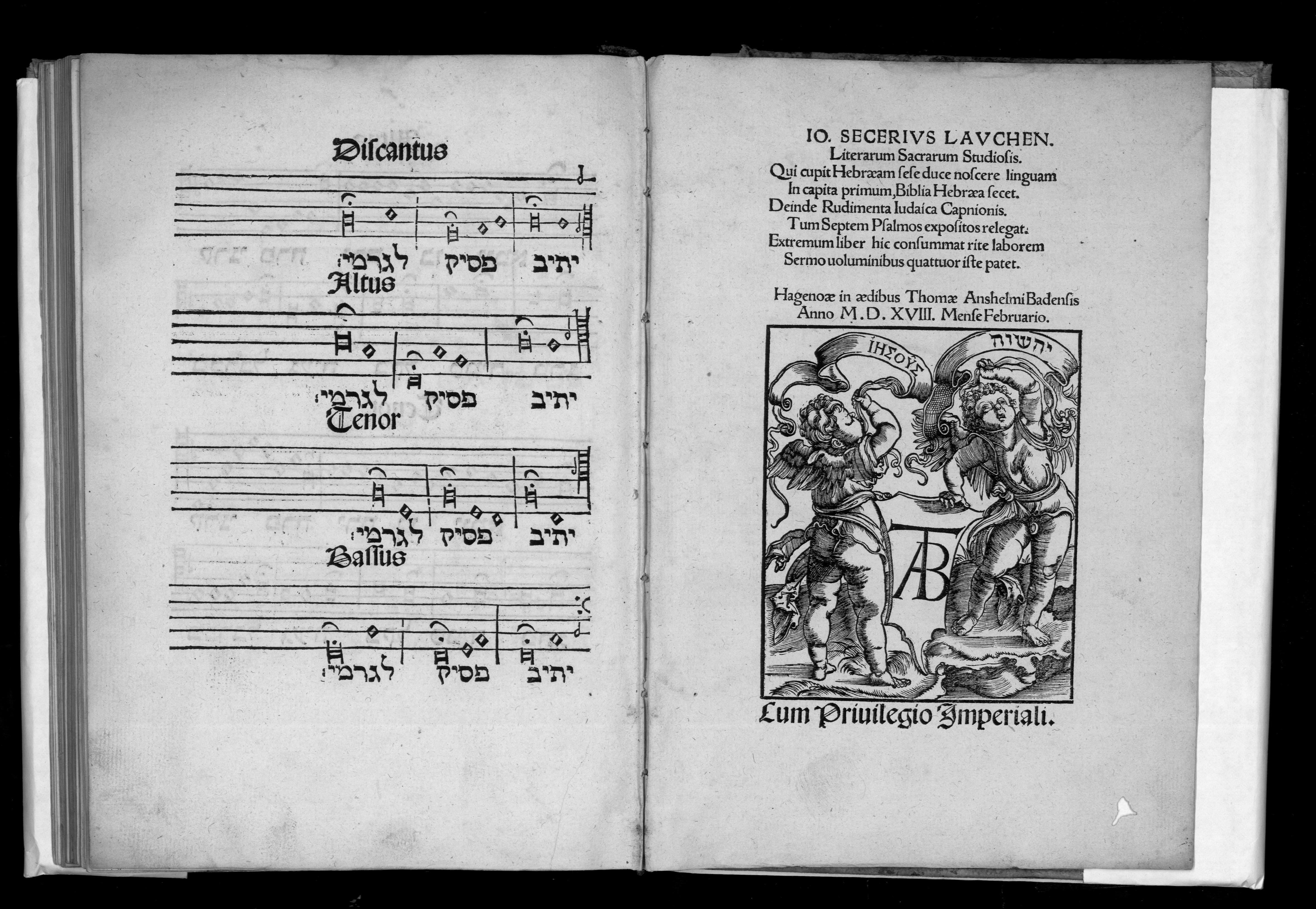 Scan of De accentibus, et orthographia, linguae Hebraicae by Johannes Reuchlin, Thomas Anshelm, Haguenau 1518. Fol. LXXXVII v. and LXXXVIII r. with a transcription of the te'amim in Western notation (LXXXVII v.) and the colophon (LXXXVIII r.). Note that, like the Hebrew text, the musical notes are to be read from right to left. Displayed are the melodies for four different voice types for jetiw (יְ֚תִיב), and paseq (פסיק), and legarmeh (מֻנַּח לְגַרְמֵ֣הּ׀)